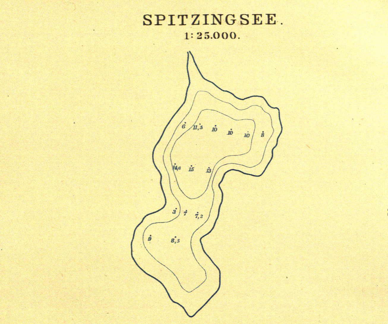 bathymetric maps of lakes of the Bavarian Alps: Tachinger See Waginger See Spitzingsee Tegernsee Kochelsee Schliersee